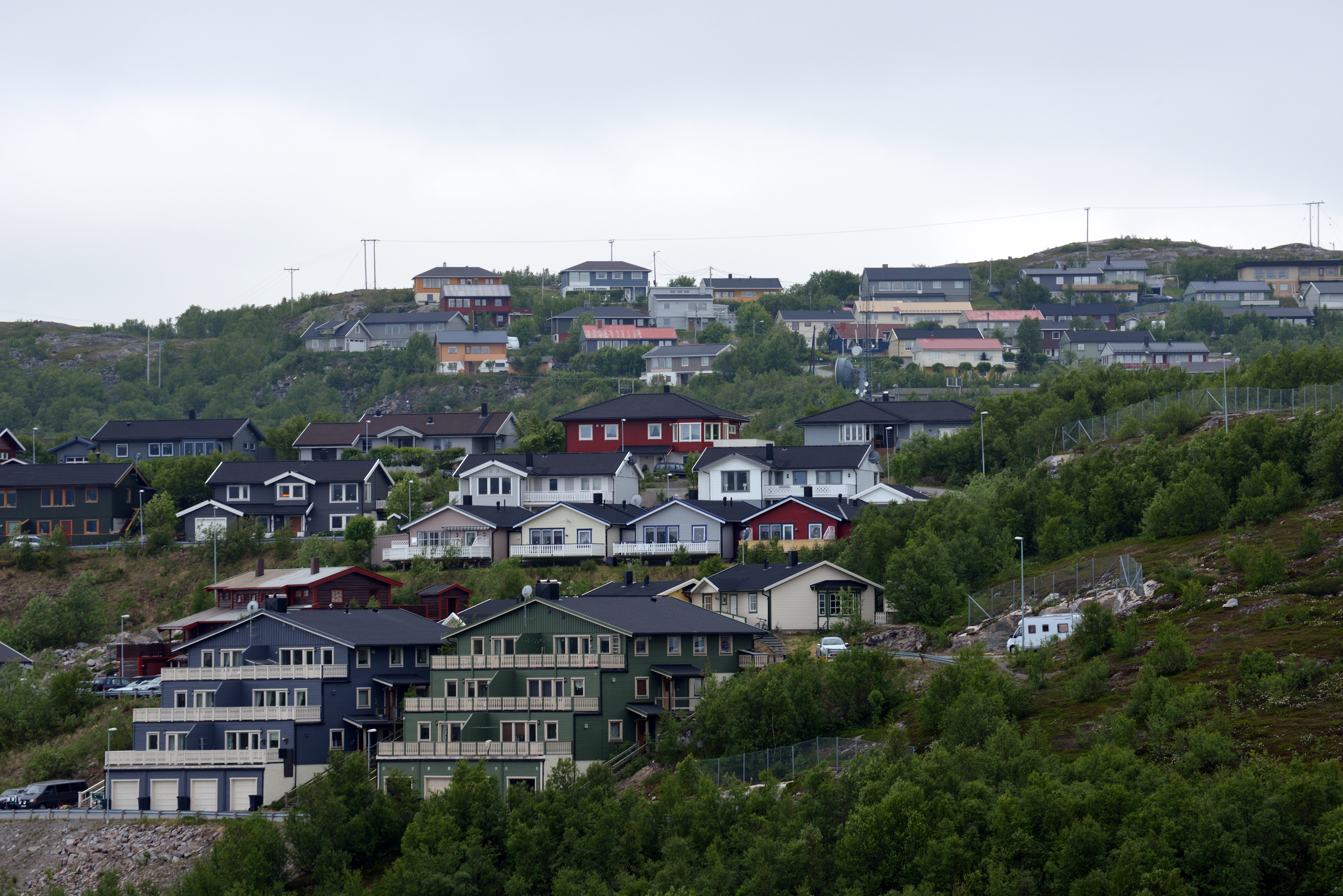 Kirkenes / little boxes on the hillside . . .